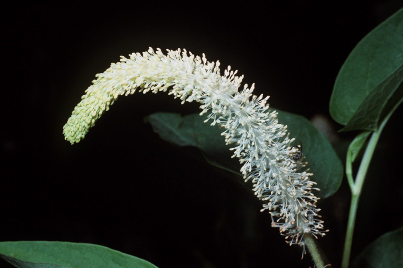 A Saururus cernuus (North American lizard's tail) flower.